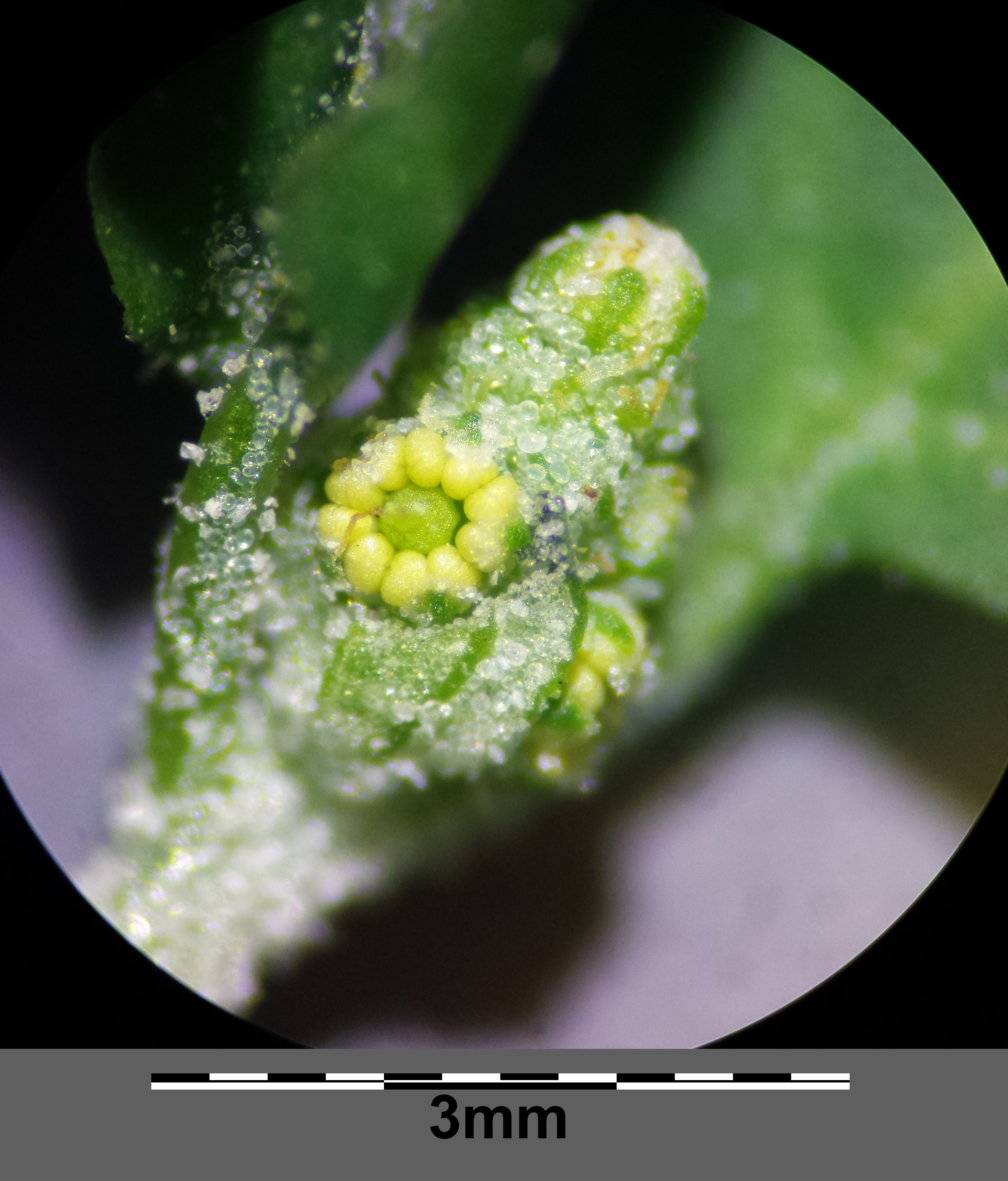 Inflorescence Taxonym: Chenopodium vulvaria ss Fischer et al. EfÖLS 2008 ISBN 978-3-85474-187-9 Location: Kagran, Vienna-Donaustadt - ca. 160 m a.s.l. Habitat: wall base